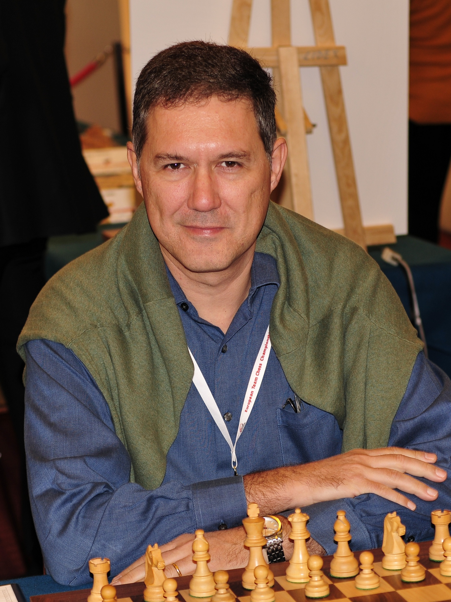 GM Miguel Illescas Córdoba, European Chess Team Championship Warsaw 2013